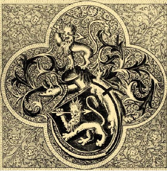 Csapy family's coat of arms. Hungarish family.